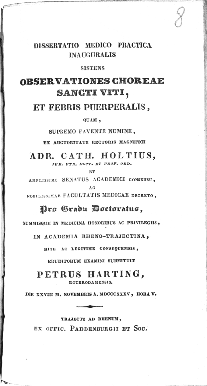 Pieter Harting: Observationes chorea sancti viti, et febris puerperalis. Observations on the St Vitus' dance (Sydenham's chorea) and postpartum infections. Title page. Medical doctoral dissertation, promotor professor Adrianus Catharinus Holtius (1786 - 1861). Utrecht University, 18 November 1835 Five o'clock. Printer: Paddenburg, Utrecht.